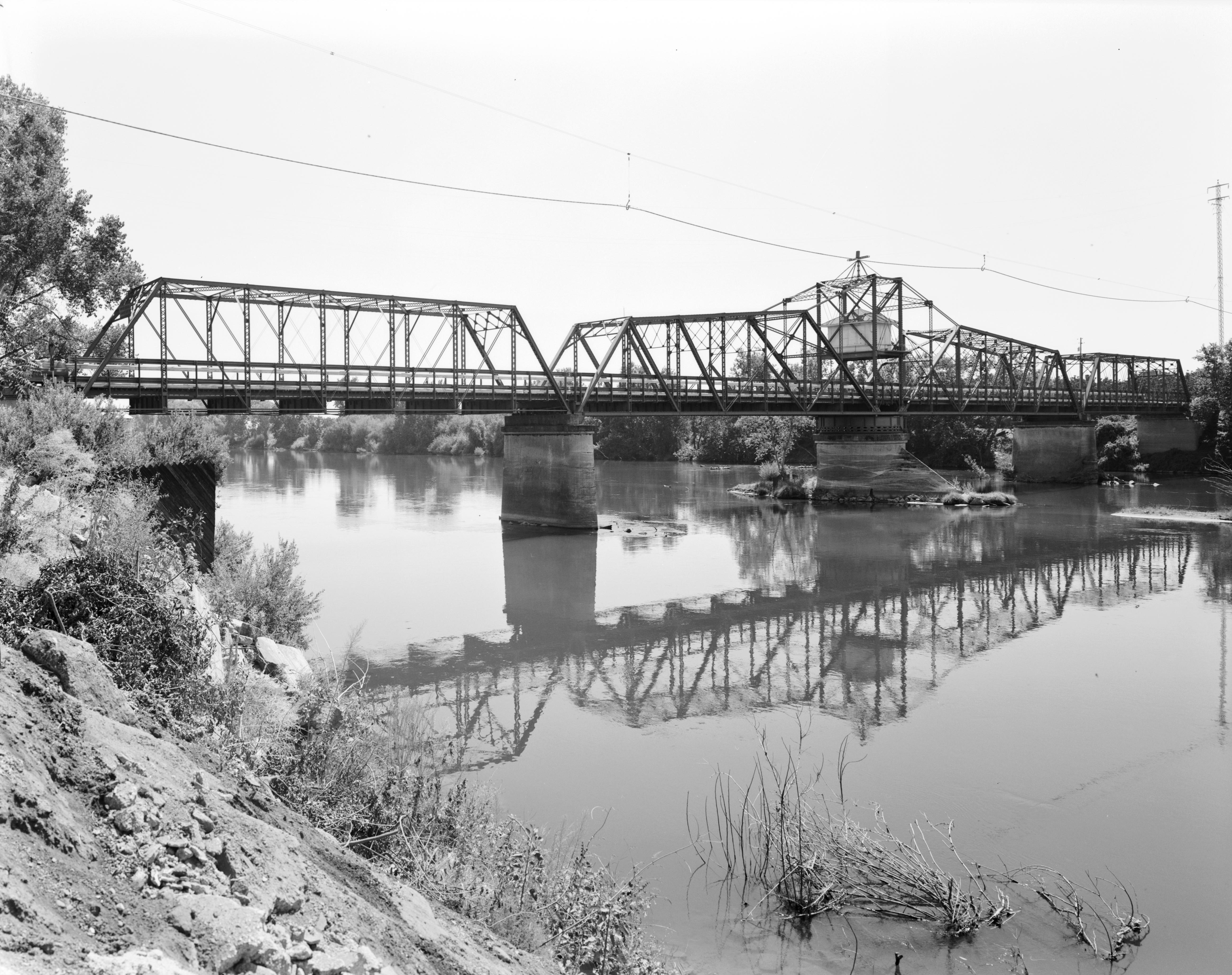 Gianella Bridge — spanning the Sacramento River at State Highway 32, Hamilton City vicinity (Glenn County, California).